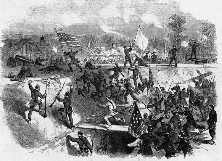 General Stephen G. Burbridge planting the Union flag after the capture of Arkansas Post (January 11, 1863), Frank Leslie's Illustrated Newspaper, 1863